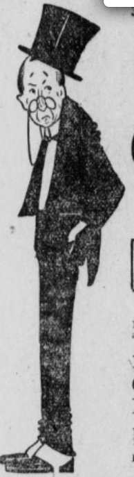 Drawing of actor Richard Carle from a 1909 newspaper advertisement.